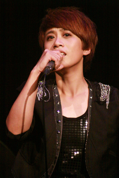 Jiang Ming-juan concert at Riverside Live House.